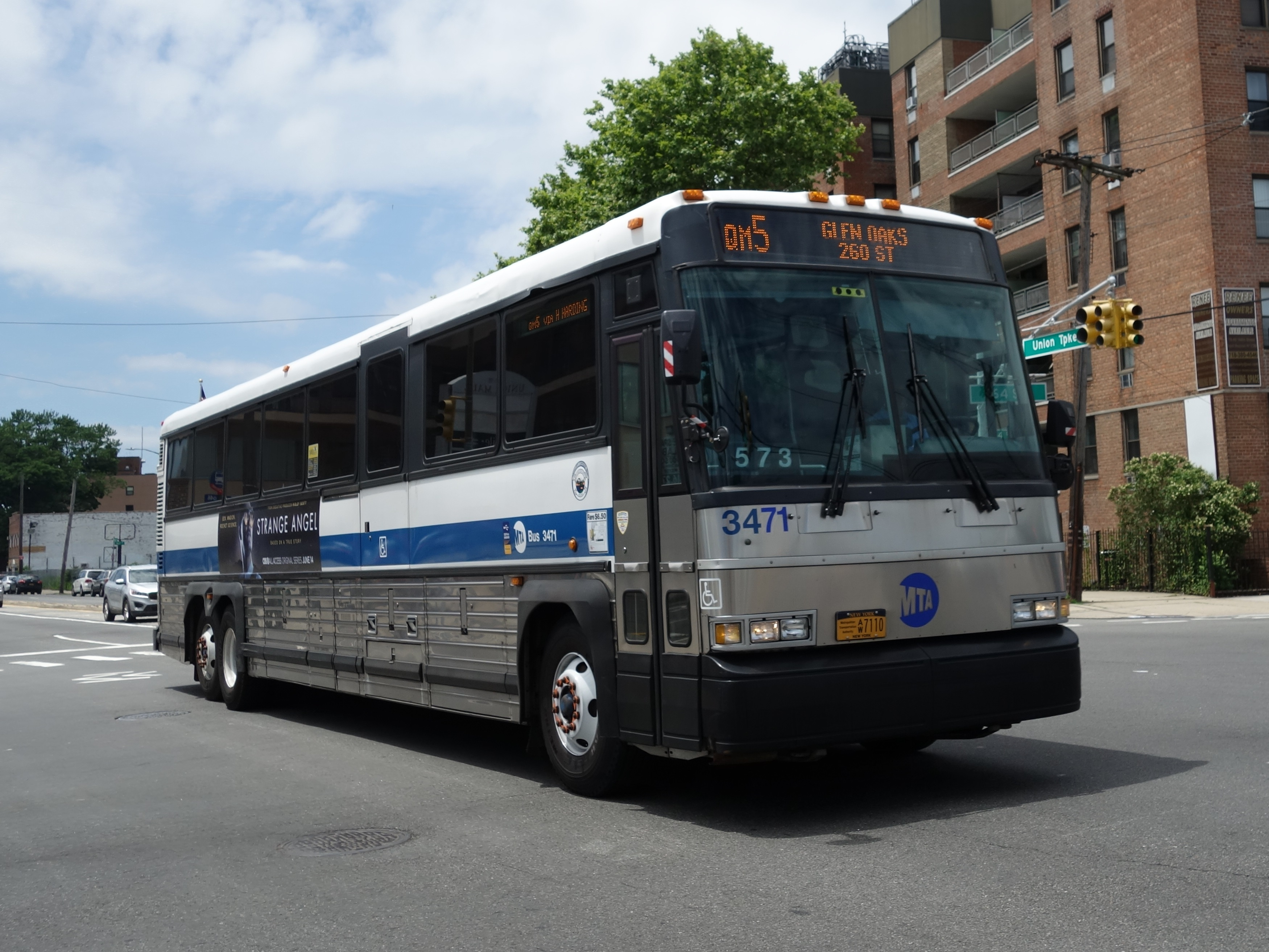 A Glen Oaks-bound QM5 express bus traveling east on Union Turnpike at 164th Street in Hillcrest, Queens. This MCI bus is standing loud and proud!